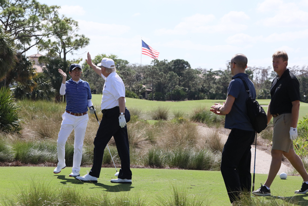 Prime Minister Shinzō Abe and President Donald Trump playing golf.